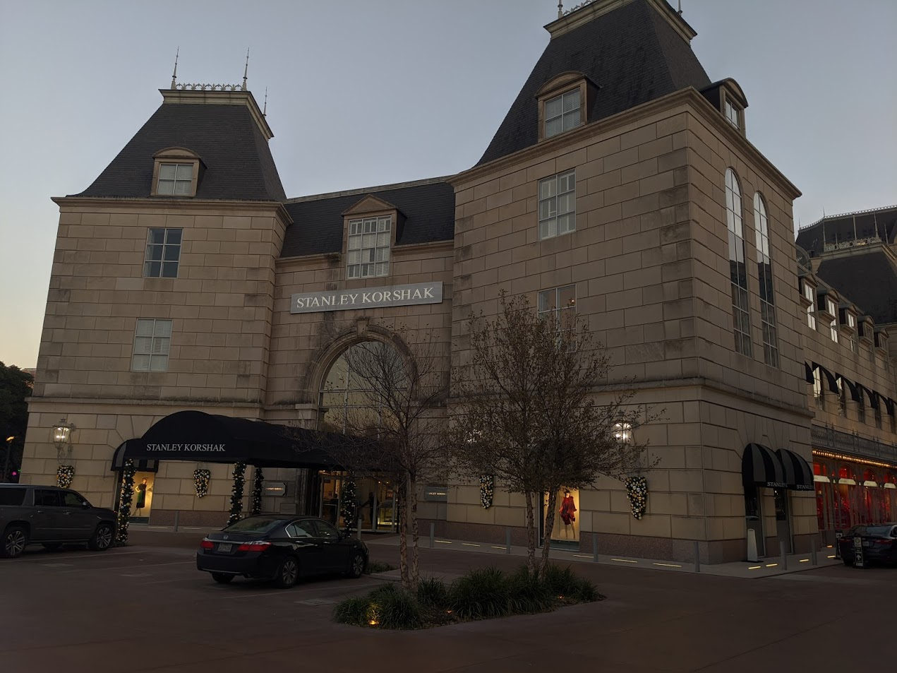 Stanley Korshak